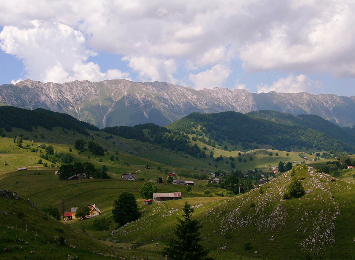 Sirnea in Brasov county